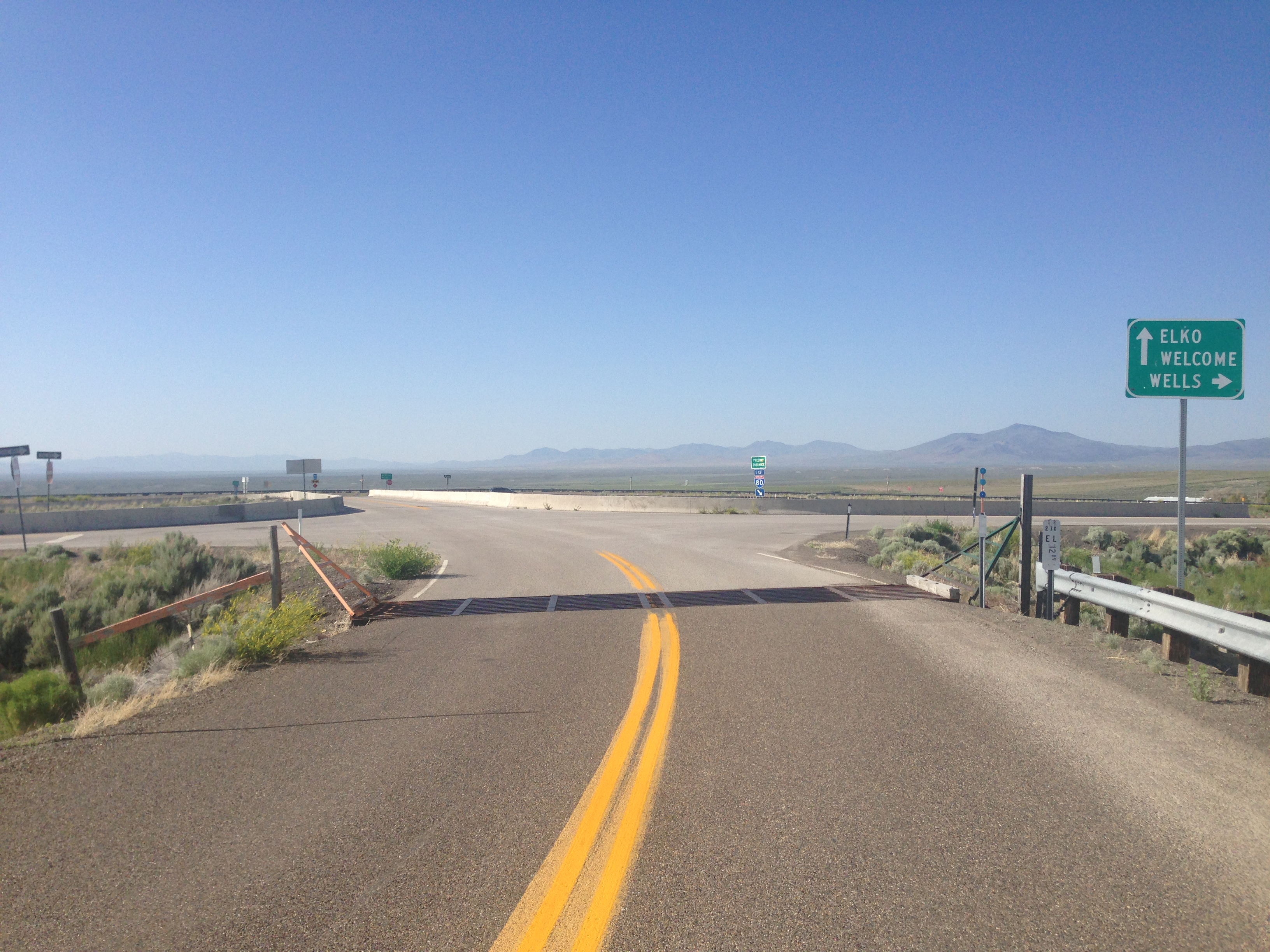 View east along Nevada State Route 230 (Starr Valley Road) near the east end in Welcome, Nevada